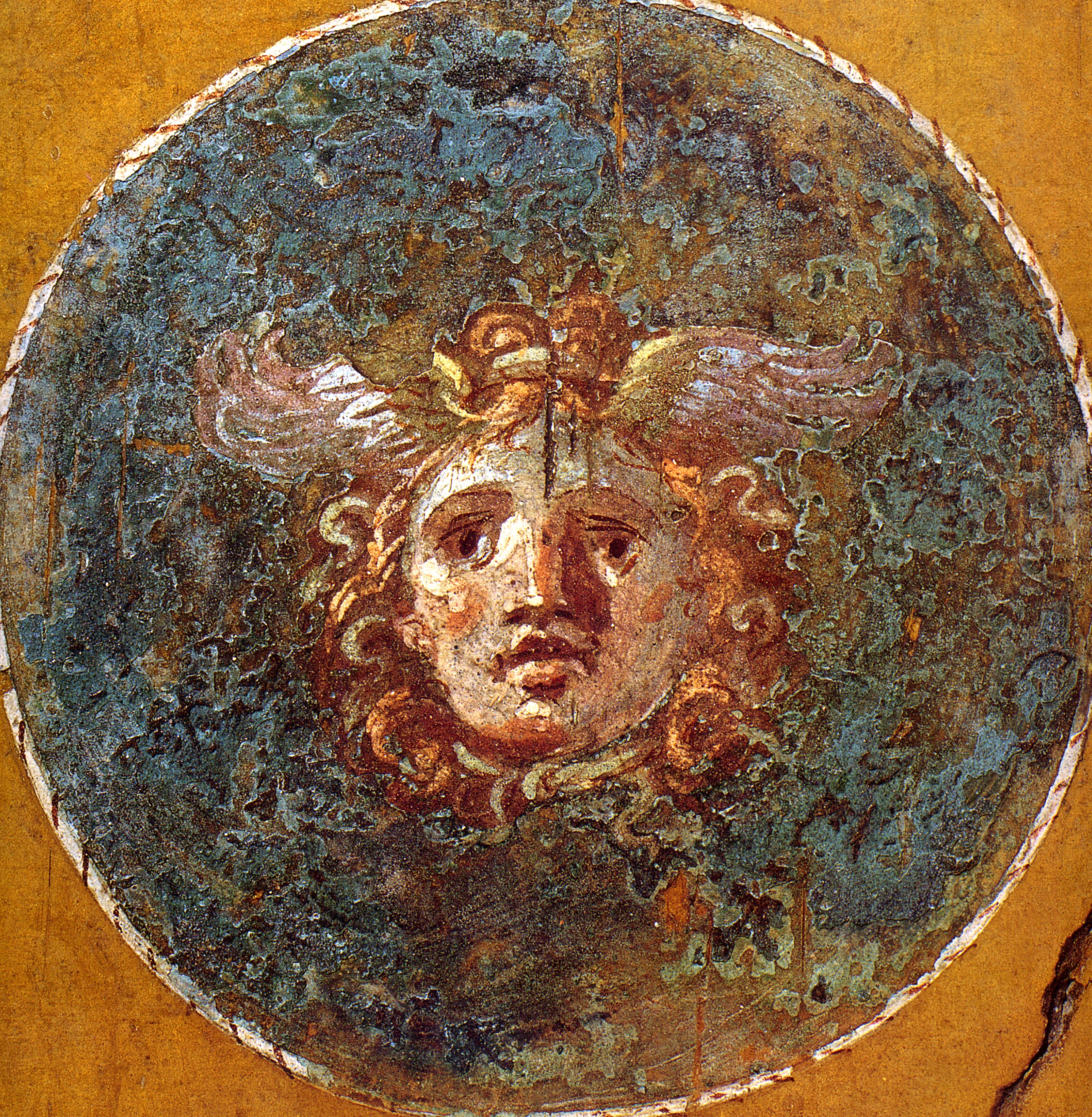 Gorgon in medaillon. Roman fresco from the Casa dei Vettii (VI 15,1) in Pompeii.